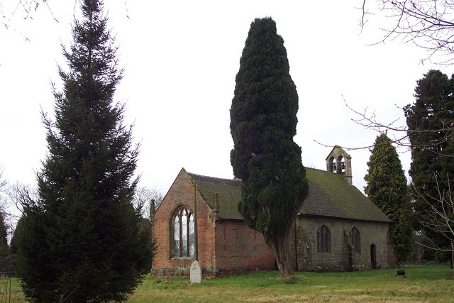 All Saints' parish church, Ranton, Staffordshire, seen from the northeast